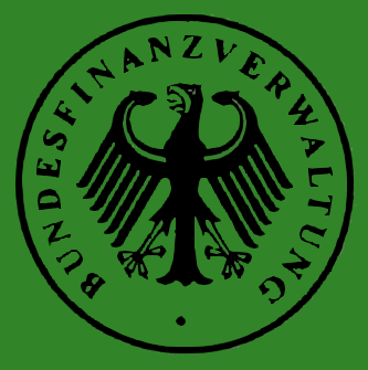 Seal of German Customs (Bundesfinanzverwaltung)